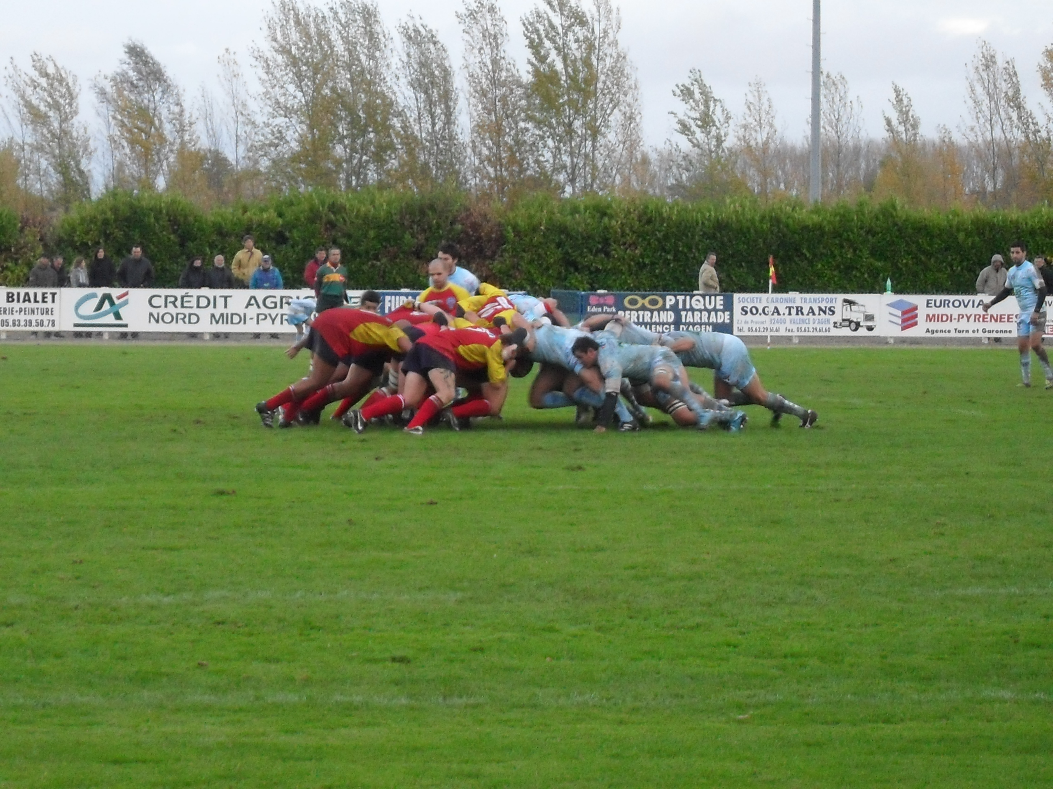 Scrum between Avenir Valencien and UR Marmande-Casteljaloux during the Federale 1 in 2009/11/08.